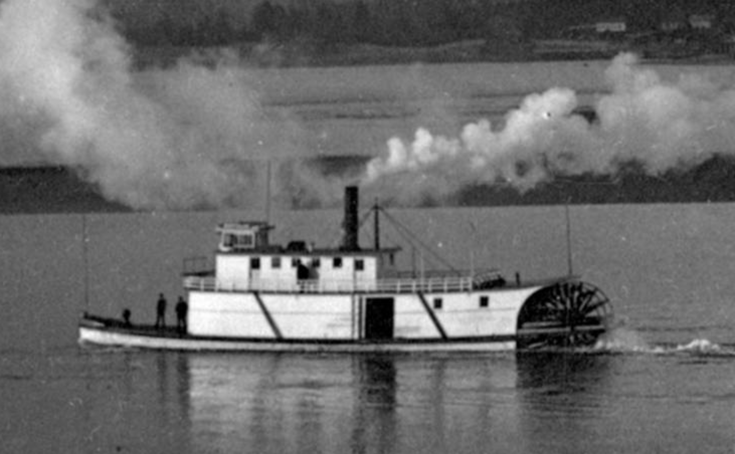 Steamer Montesano on Yaquina Bay, probably June 1887, but not later than early summer 1888 when this vessel was transferred to Coos Bay.